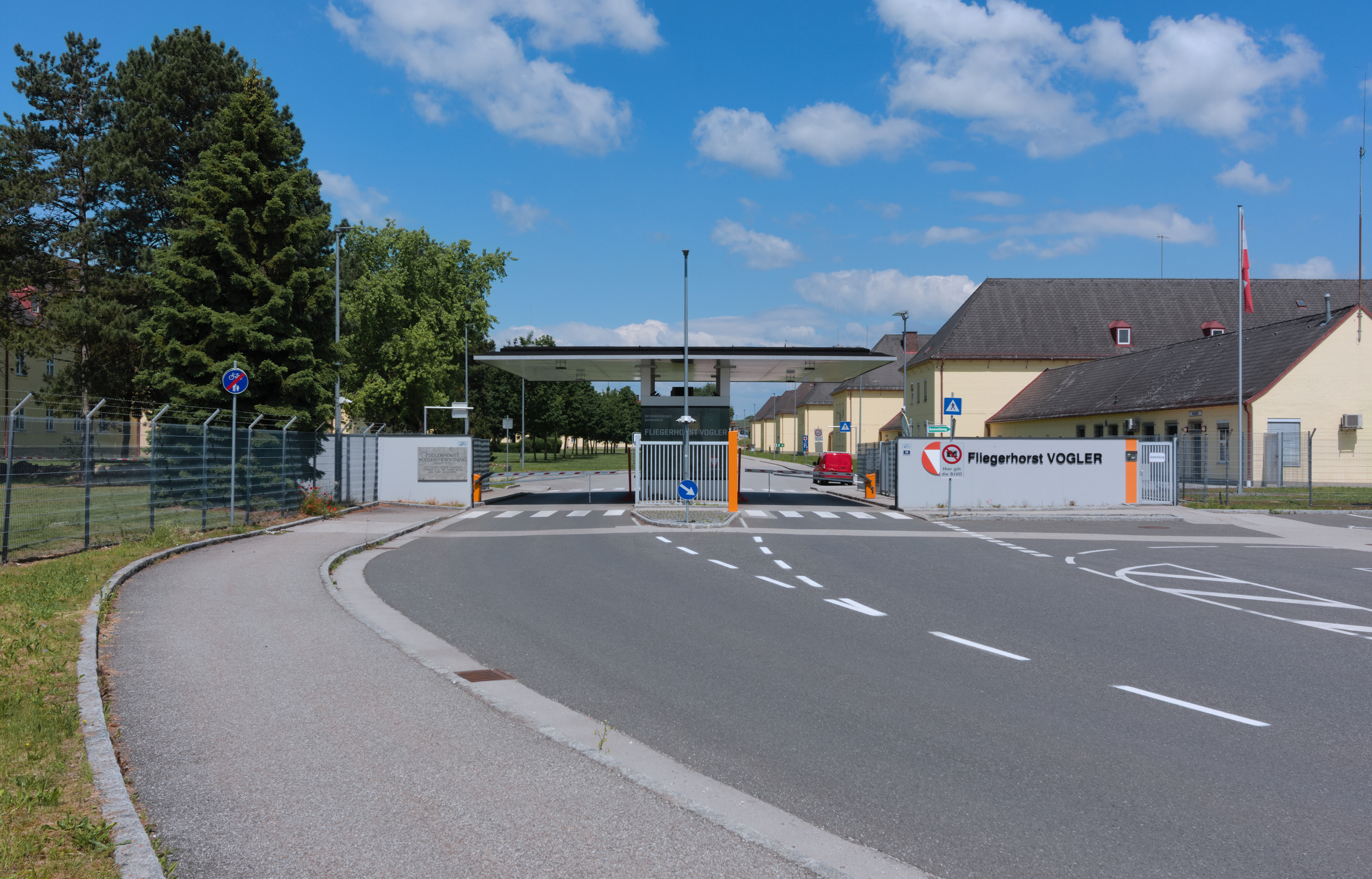 The entrance of Fliegerhorst Vogler (Air base Vogler) in Hörsching, Upper Austria, Austria